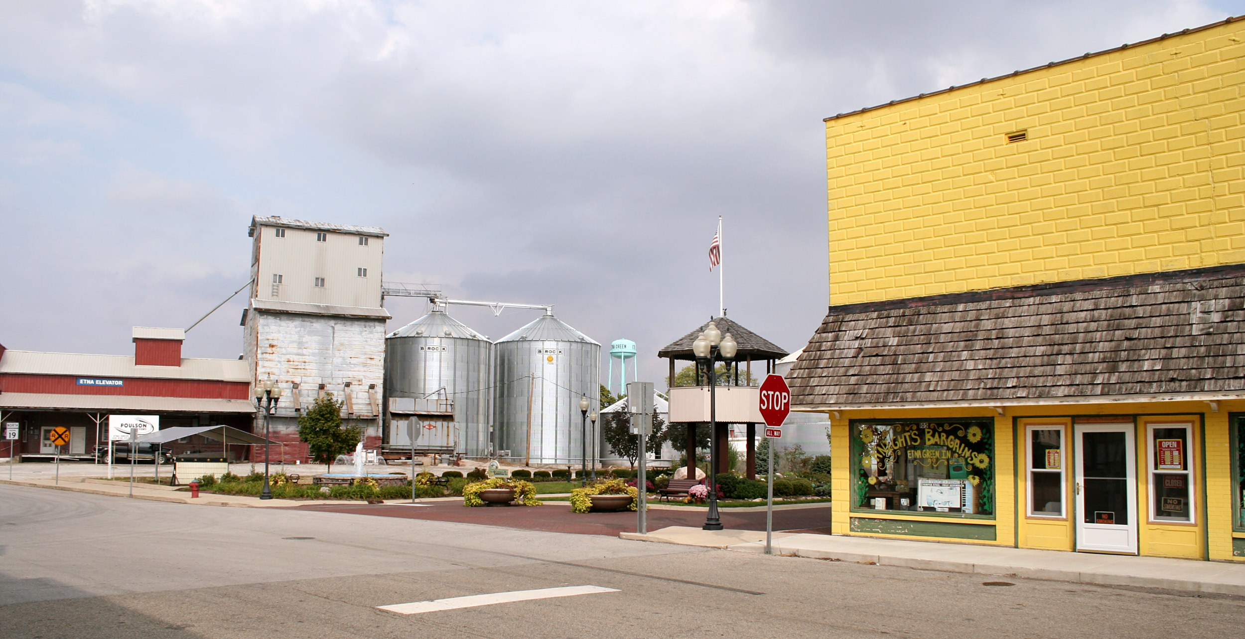 Etna Green, Indiana downtown. Photo shot by Derek Jensen (Tysto), 2005-October-02